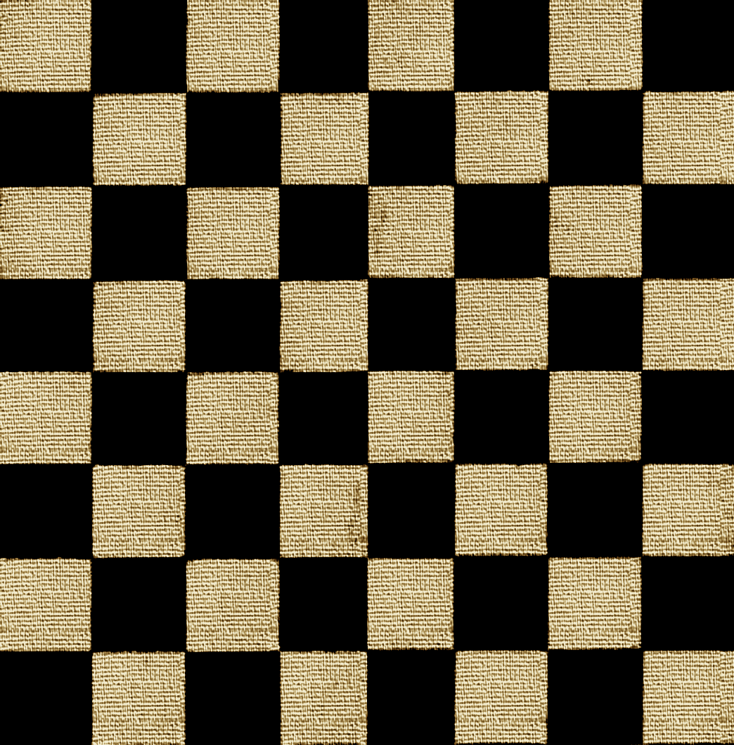 Fabric Chess Board